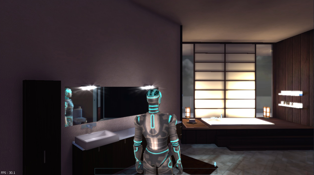 Intruder level - Jimmy - Interior 1